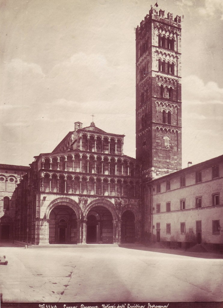 Fotografia dell'Emilia (Pietro Poppi, 1833-1914) - "Lucca. Cathedral". Catalogue number: 1170. 1880s Today.